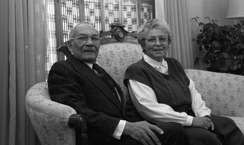 Story in the Ann Arbor News, March 1, 1987